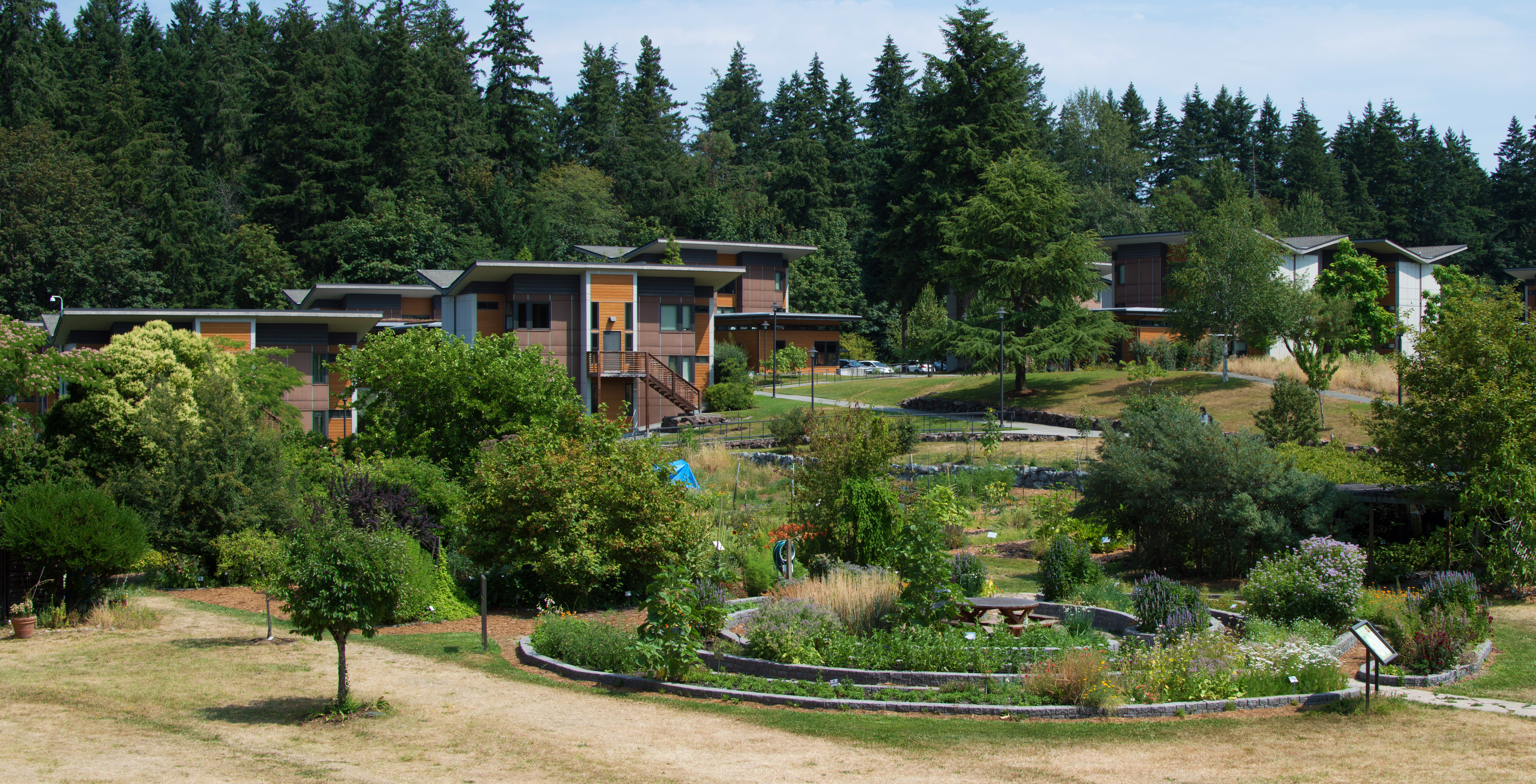 Bastyr's student housing complex is comprised of 11 buildings on the edge of campus. Bastyr's garden can be seen in the foreground.